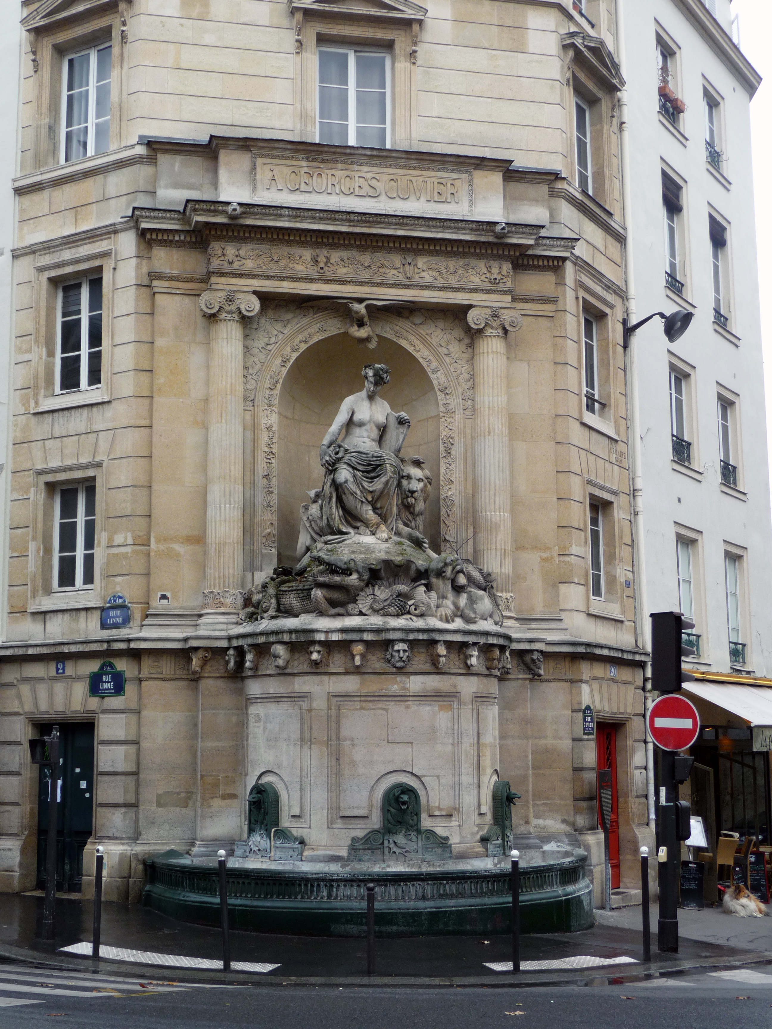 Fountain in honor to Georges Cuvier in Paris